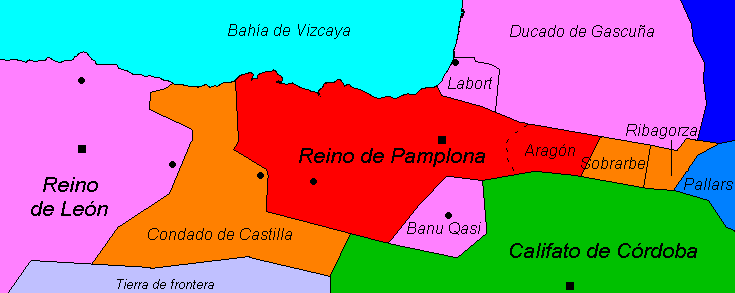 Author: Kordas, based on Sugaar work. Source: Sorauren, Mikel. Historia de Navarra, el estado vasco. 1998. Pamiela ed. ISBN 84-7681-299-X Legend: Domains of Sancho the Great of Pamplona. Red: Kingdom of Pamplona Orange: In personal union with Pamplona Pink: Under Pamplonese influence (and linked by family ties) Blue shades: French domains Green: Caliphate of Cordoba (later Taifa of Zaragoza) Dots: main cities